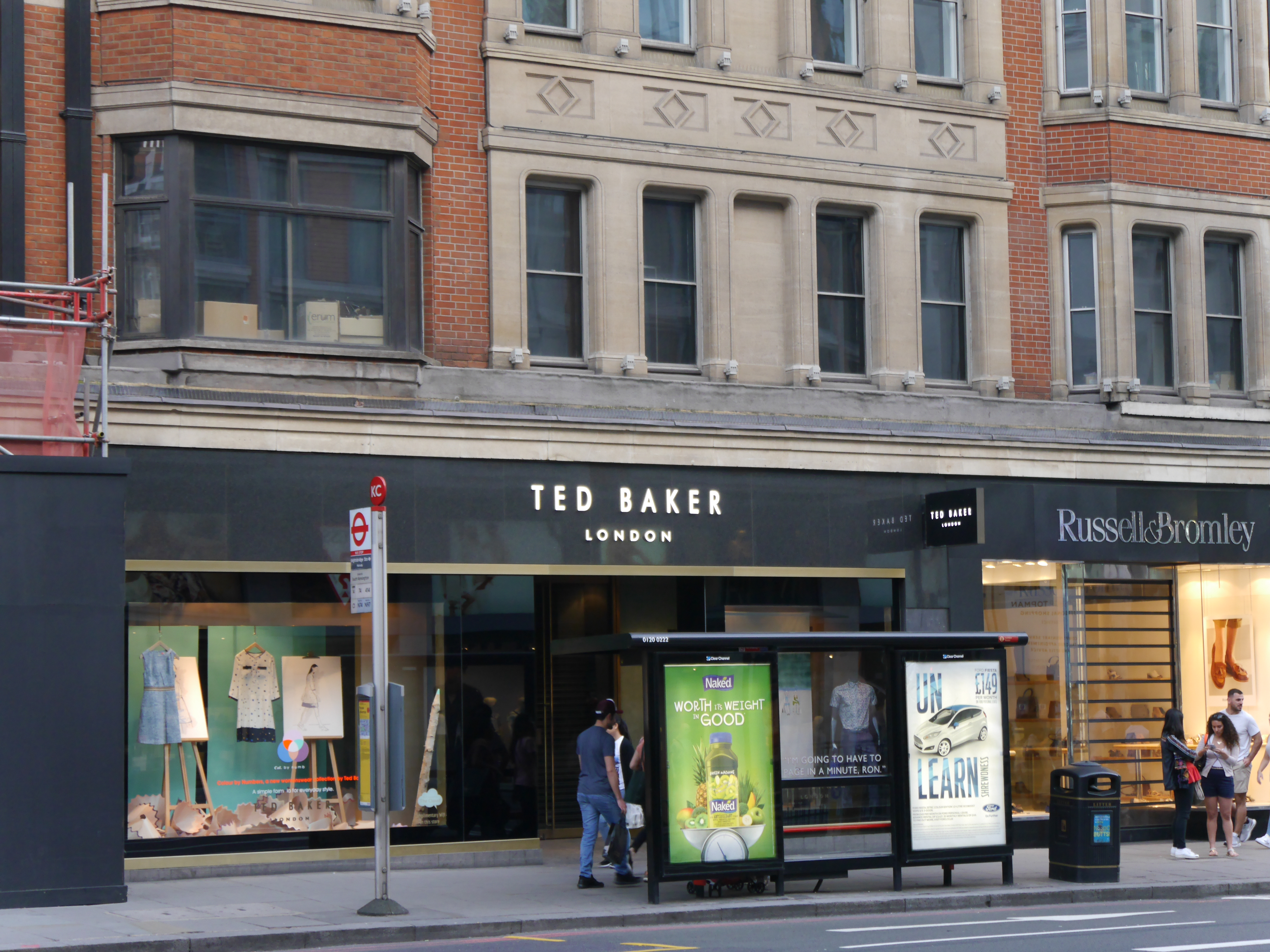 Brompton Road, London, June 2016